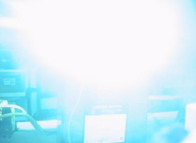 This photo shows an 85 joule flash discharged in 3.5 microseconds, as seen by the camera through a shade 10 welding filter, (the kind so dark that you can barely see anything through it). While moderately low in energy, the flash produced is extremely intense, from the highly concentrated electrical pulse (equalling 24 million watts), and has no problem penetrating the very dark filter. Due to miscalculation for capacitance, by omitting special circumstances which need to be taken into account at flashes below 10 microseconds[1], the current density is very high which produced the very bluish flash, easily visible, (even lighting up storage bins and a chair across room), through the green arc welding lens. The very high current-density produced an arc temperature of approximately 17,000 Kelvin. This centters the output of the arc at around 170 nm, which is near the UV cut-off for the quartz-glass tubing. References ↑